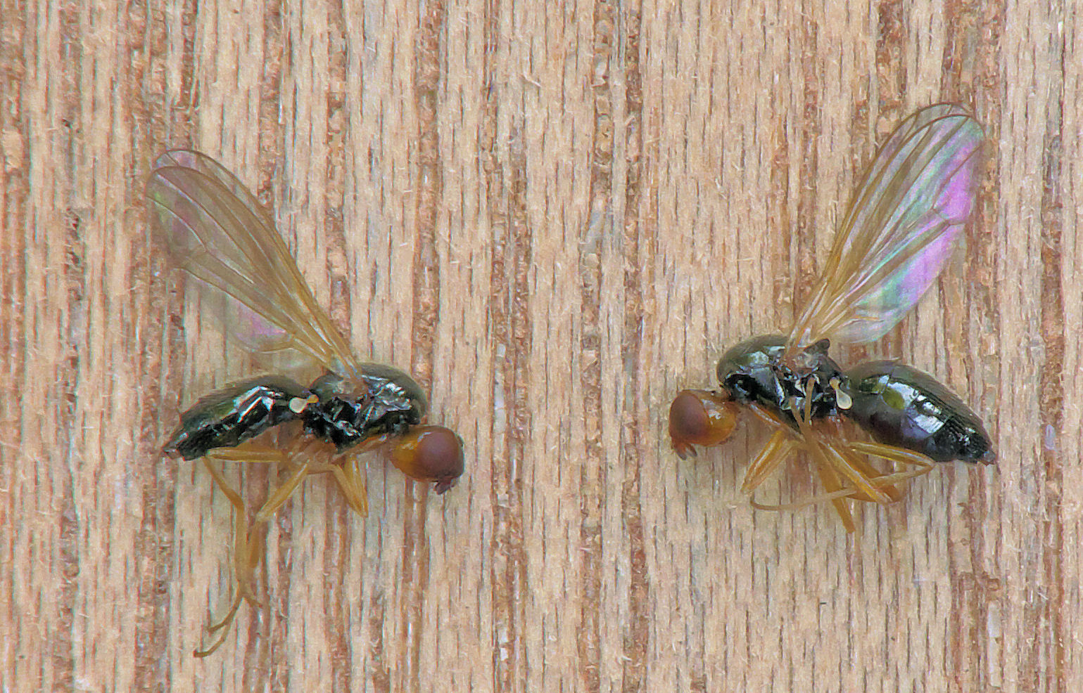 Chamaepsila rosae 5-6 mm long